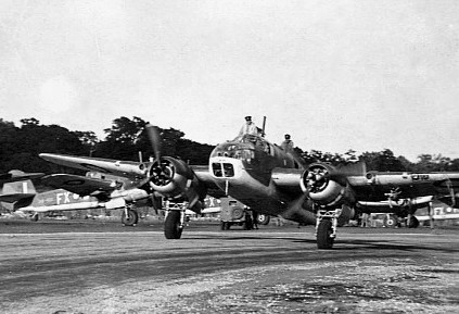 VIVIGANI, GOODENOUGH ISLAND, PAPUA. C. 1943-11. PART OF A HEAVY FORCE OF BEAUFORT AIRCRAFT OF NOS. 6 AND 8 SQUADRON RAAF LINING UP TO TAKE OFF ON THE ANNIVERSARY OF THE AIR ATTACK ON RABAUL.